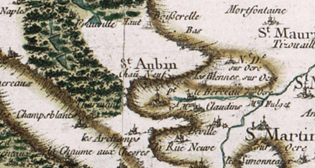 18th century Cassini map of Saint-Aubin-Chateau-Neuf and surroundings, in Yonne departement, Burgundy, France.